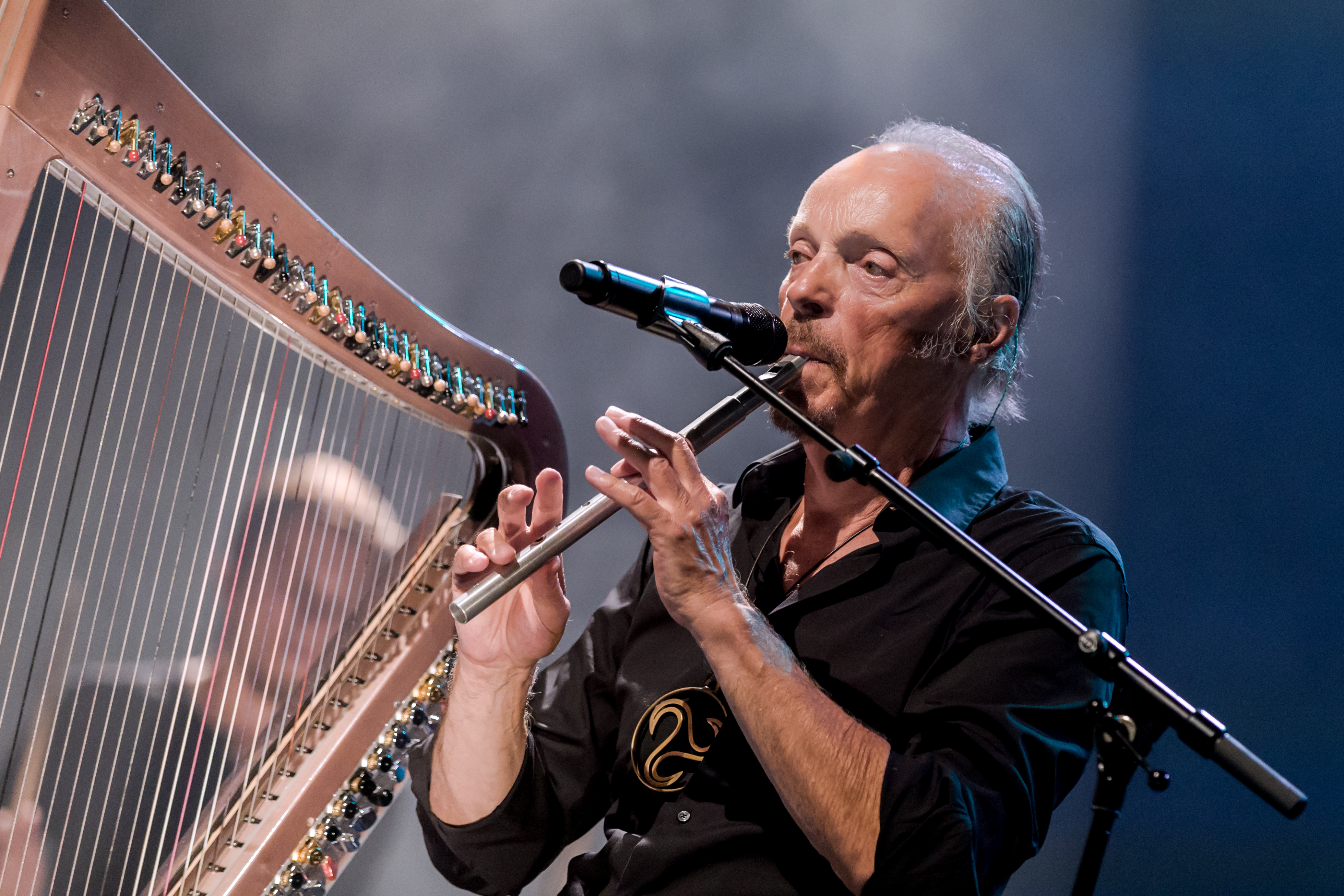 Alan Stivell in live during Cornouaille Festival (Quimper, Brittany) July 22, 2016.